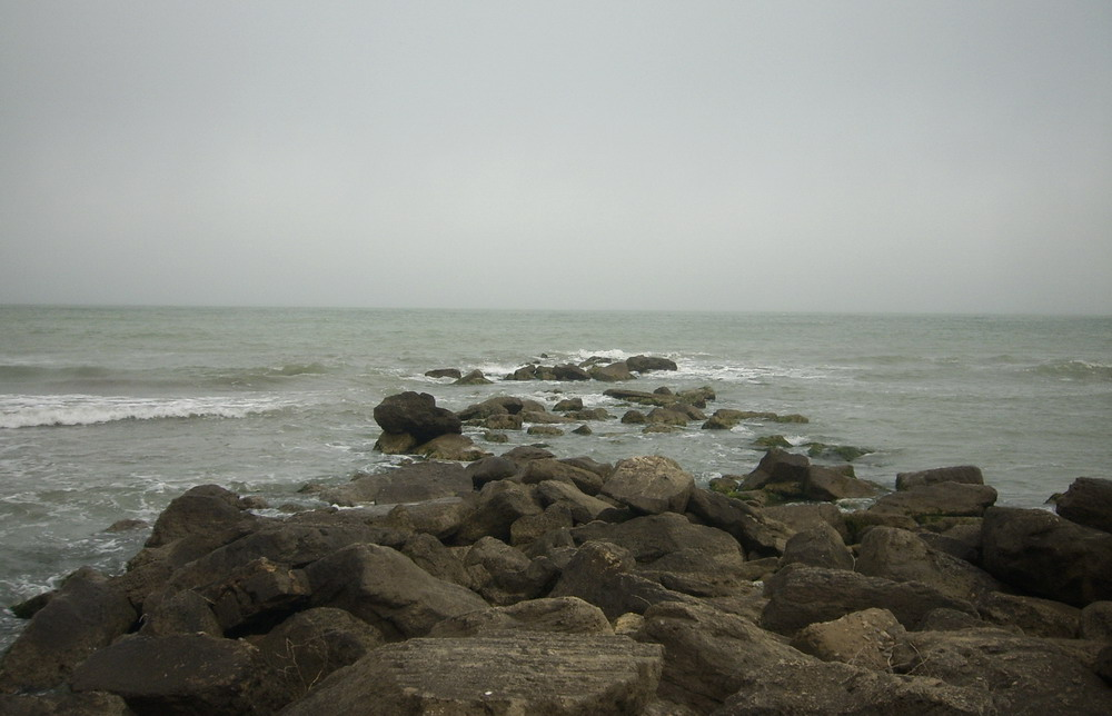 Description: Caspian sea Source:Own work Date: 2008 Author: Irada